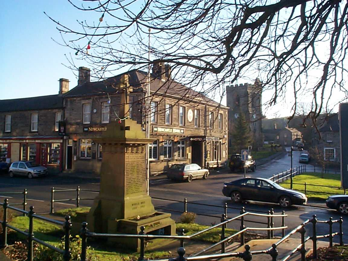 Glenn Smart (glennsmart(at) ) Use the images for whatever you want. That's what the Internet should be for - sharing.